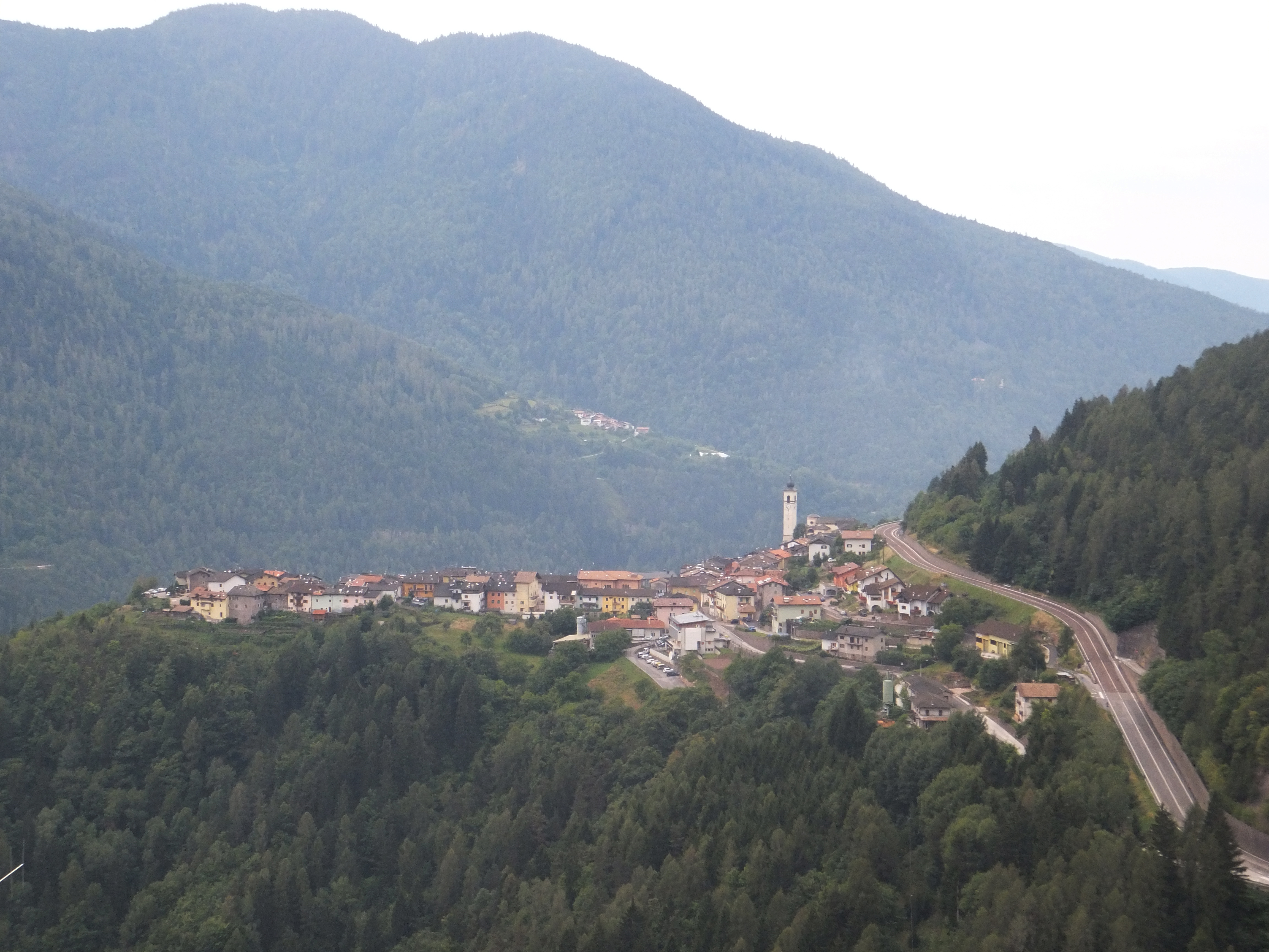 The italian town of Grumes seen from the nearby Grauno